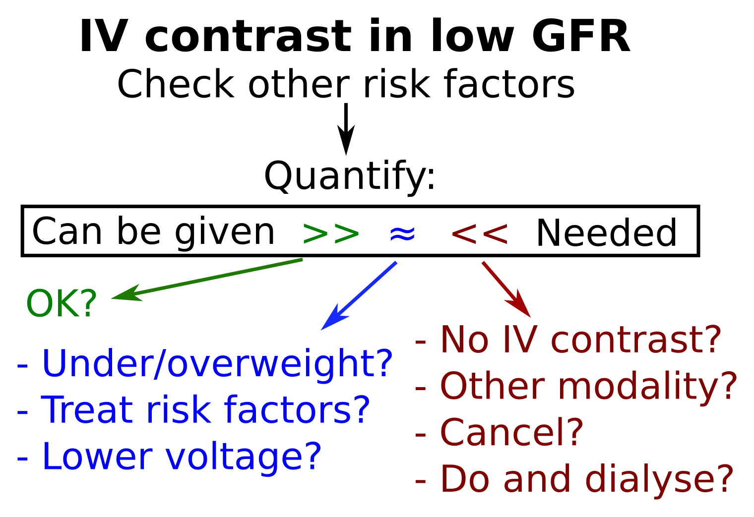 Intravenous (IV) contrast CT algorithm in low glomerular filtration rate (GFR).